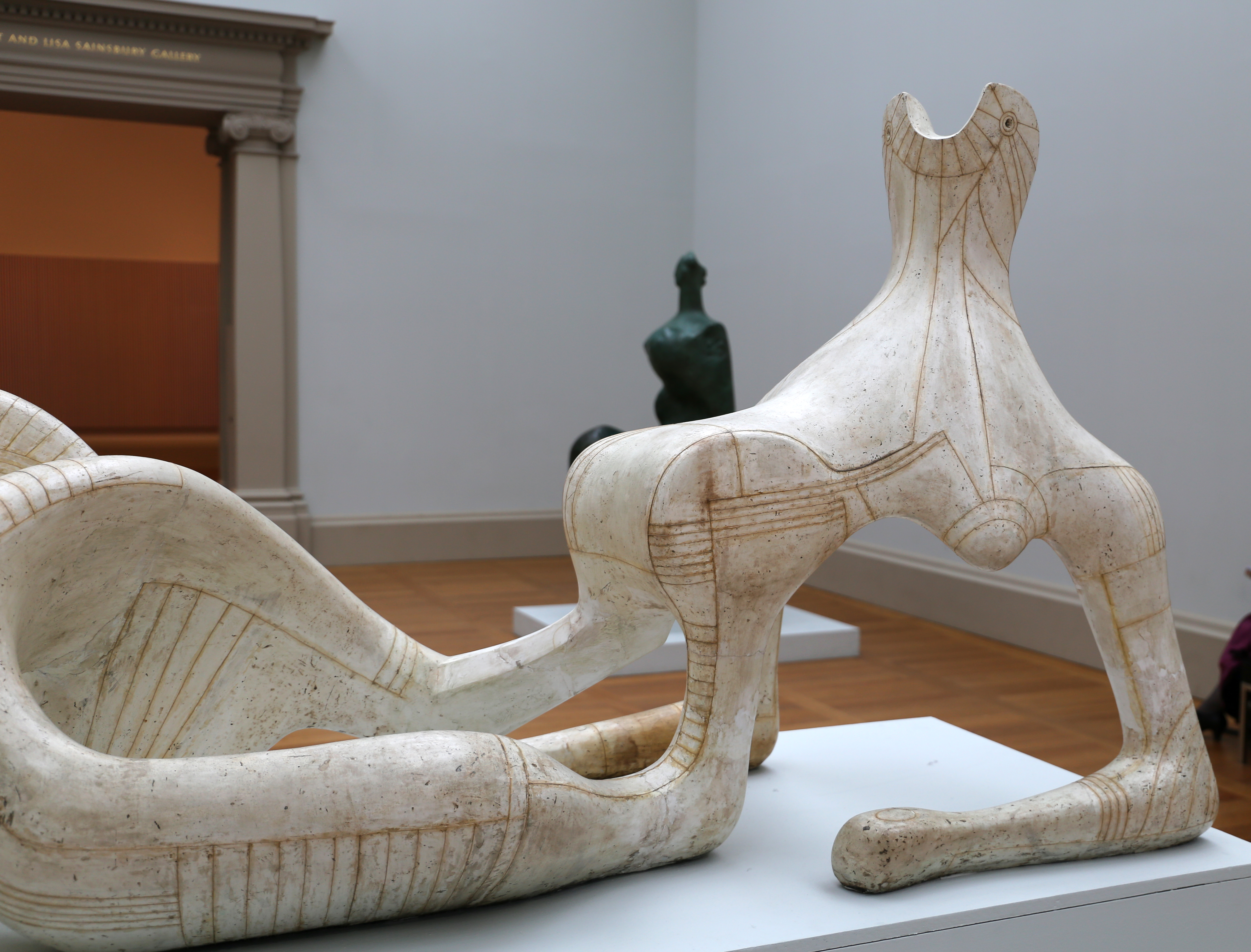 Sculptures in Tate Britain